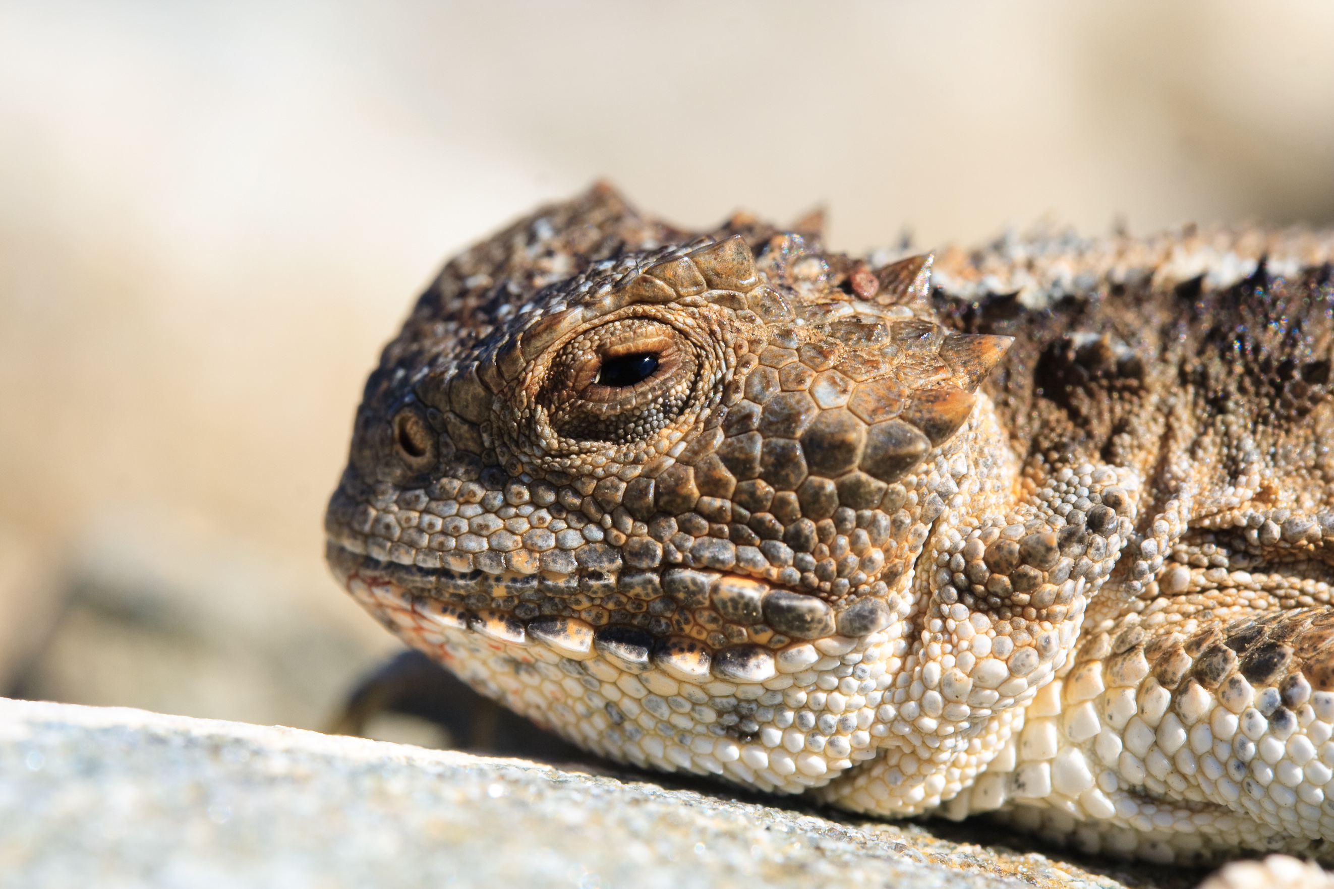 Greater Short-horned Lizard found in Saguache County, Colorado USA.